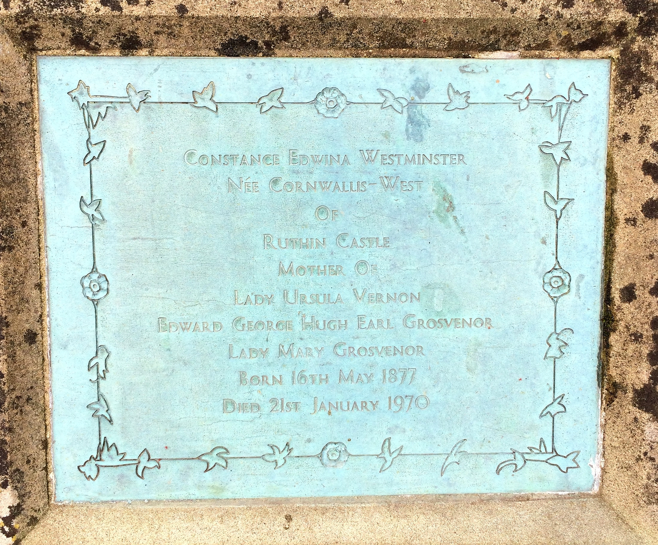 St Mary's Church Eccleston, Old Churchyard - plaque commemorating Constance Edwina (née Cornwallis-West, 1876−1970), former wife of the 2nd Duke of Westminster, at the grave of Lord Edward George Hugh Grosvenor (known as Earl Grosvenor, 1904–1909), only son of the 2nd Duke of Westminster.